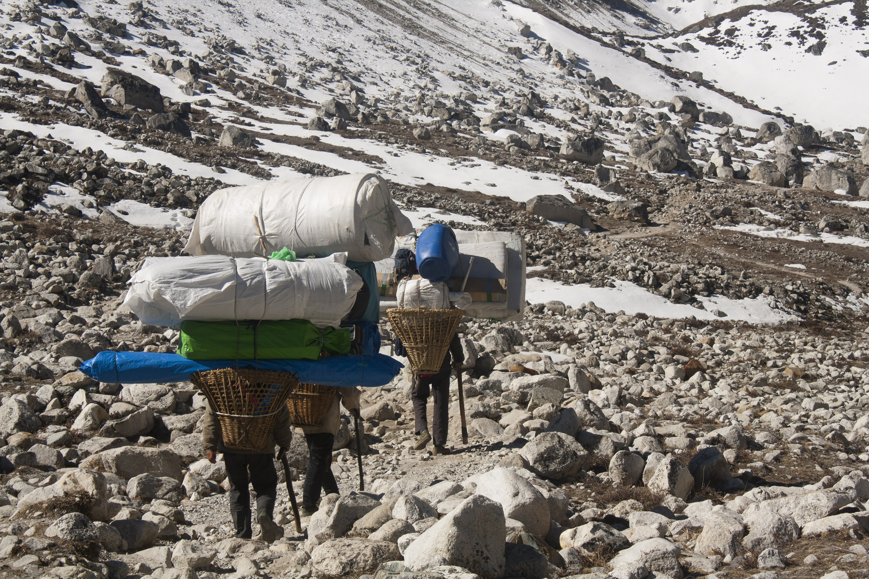 Sherpas near Lobuche, Nepal.